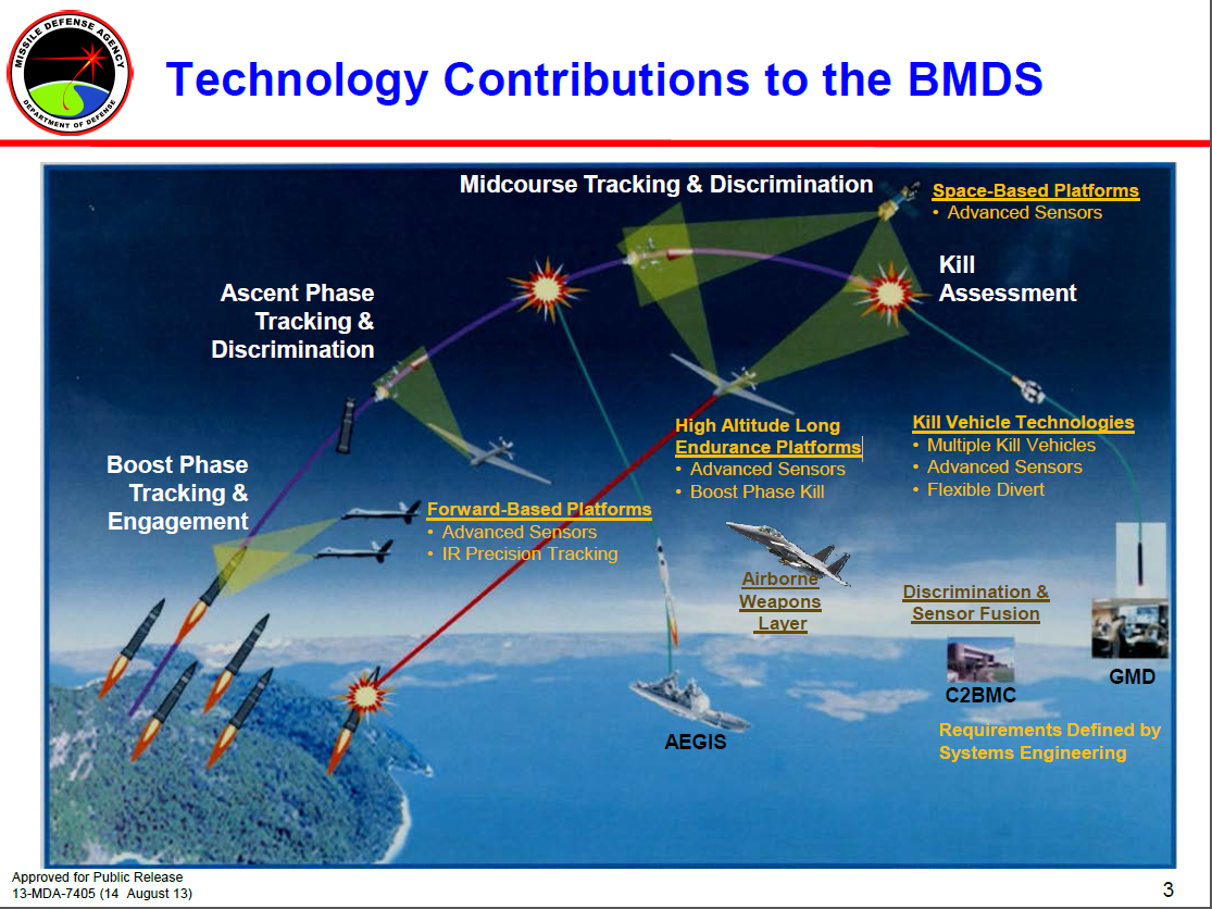 Missile Defense System Elements - by the MDA (Missile Defense Agency, USA)